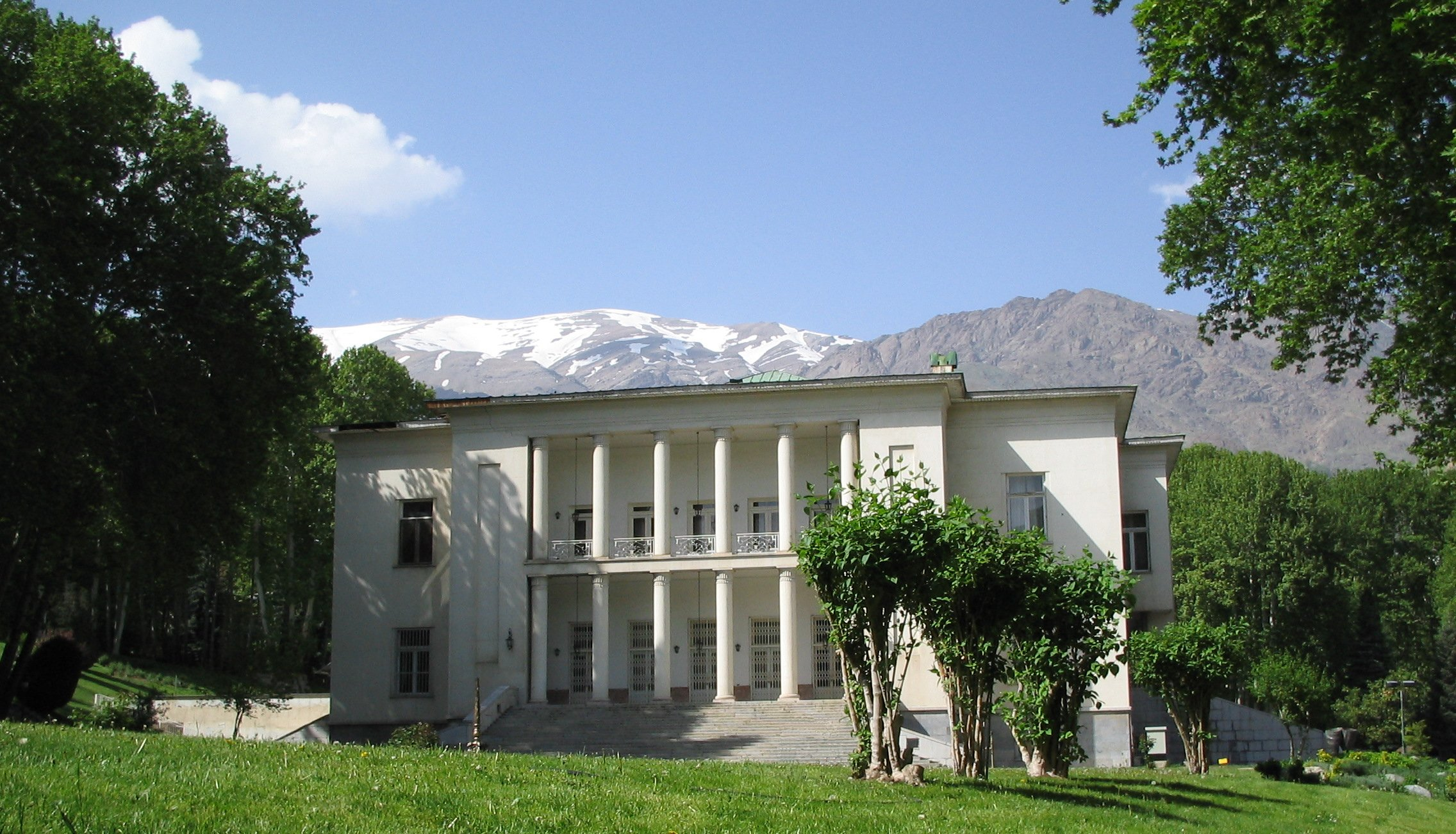 Ex-Royal Iranian Palace (White Palace), Tehran, Iran.